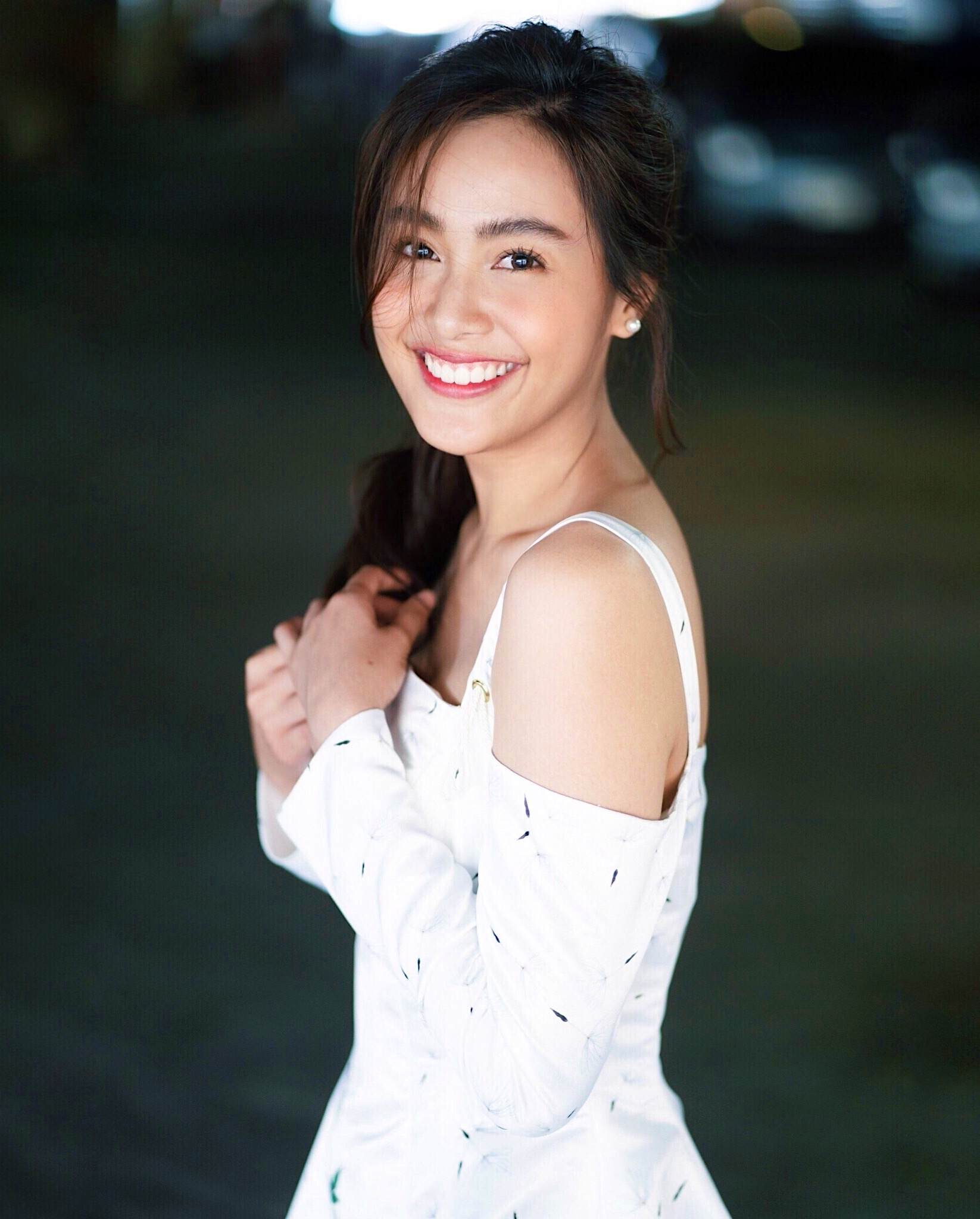 Oomeisaya, Thai actress